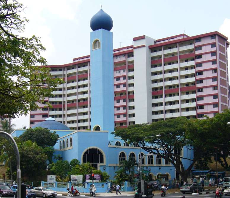 Masjid Al-Ansar, on the northwest corner of Bedok North Avenue 1 and Chai Chee Street in Singapore. The mosque has three levels that can accommodate up to 3,000 worshipers.